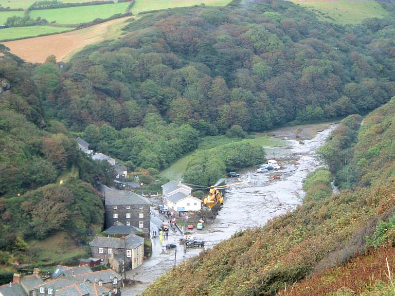 A RAF Seaking Helicopter, in Boscastle During the flood